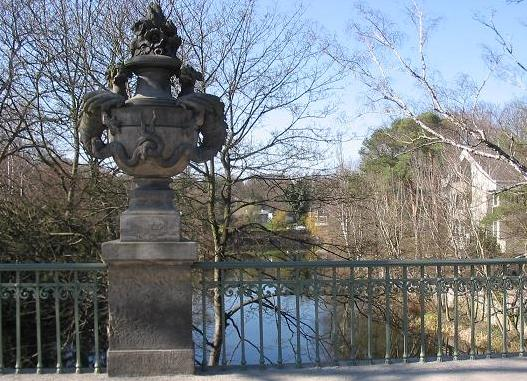 The Hertha lake ("Herthasee") in Berlin; view from the Bismarck bridge